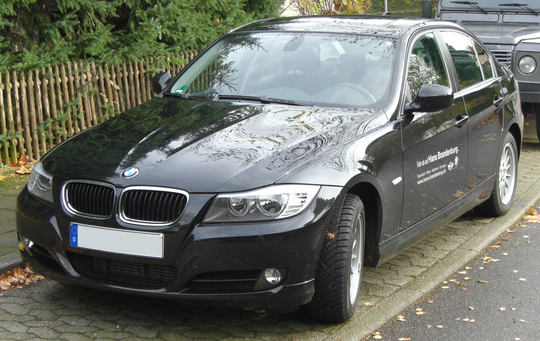 Description: BMW 318d E90 Facelift Source: Matthias Other Version(s)